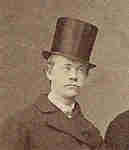 Alfred Edvard Adolf Hahn (1841-1920), Örebro, Sweden, factory owner.